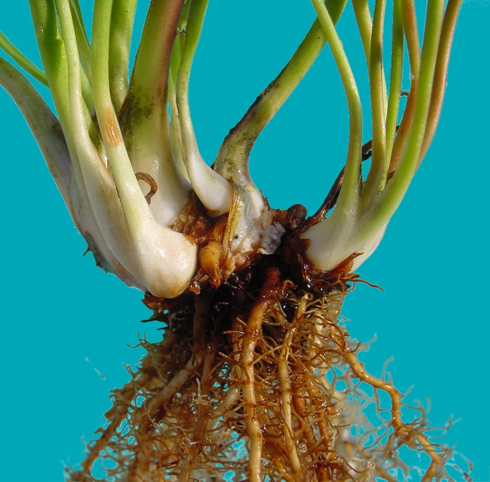 Description: Sarracenia rhizome Image created by: Noah Elhardt